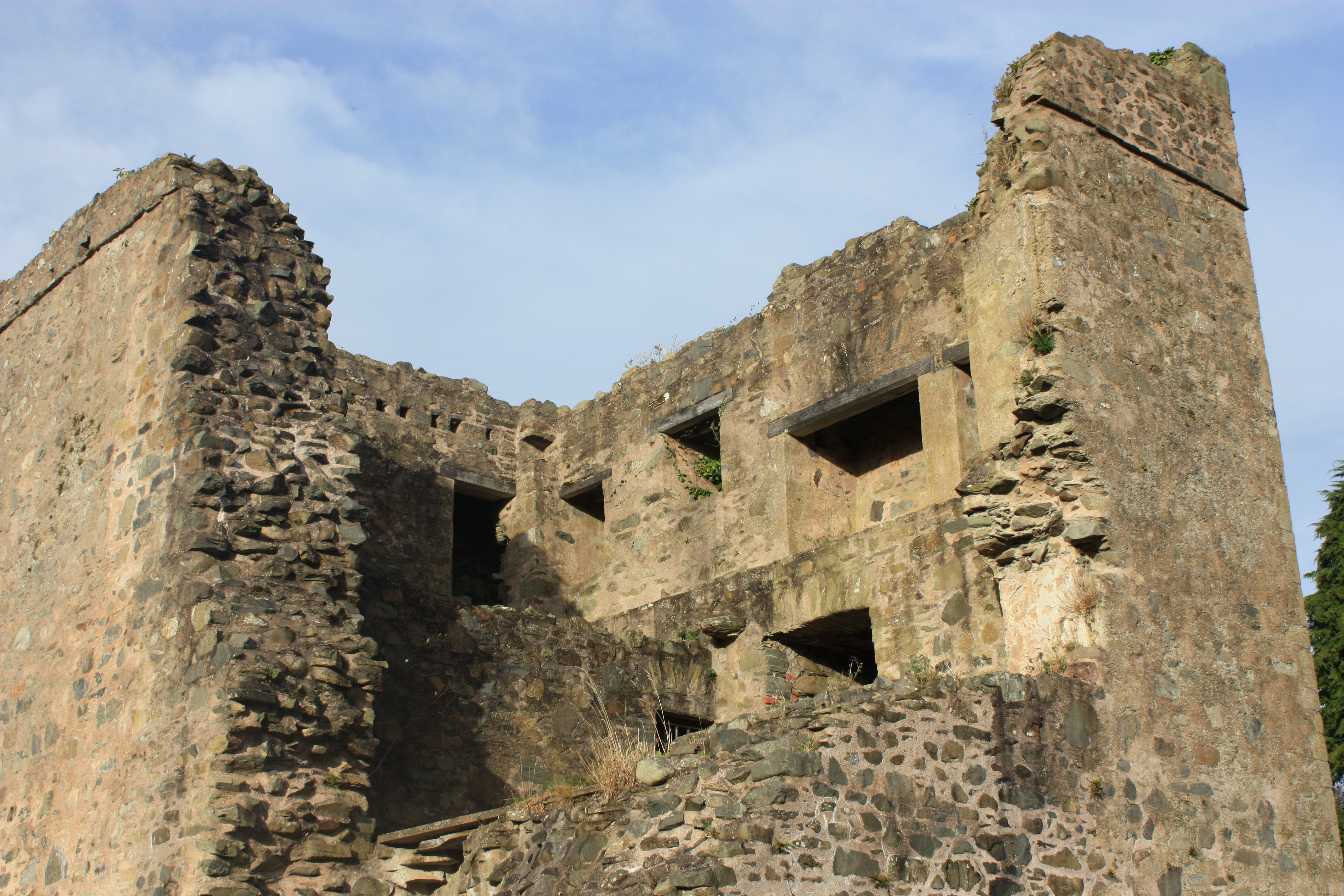 Quoile Castle, Quay Road, Downpatrick, County Down, Northern Ireland, October 2009